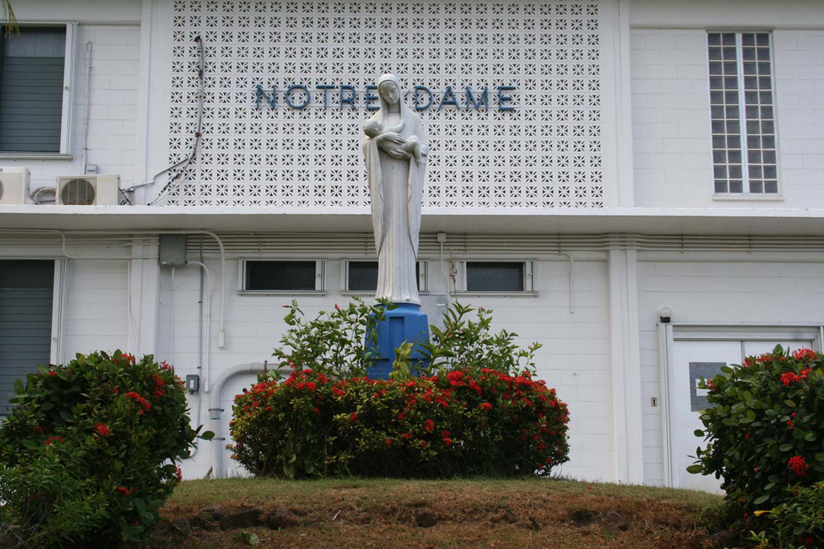 First opened in 1968, Notre Dame High School became the only co-ed Catholic High School in Guam in the mid-1990s. Nathalie Pereda/Guampedia